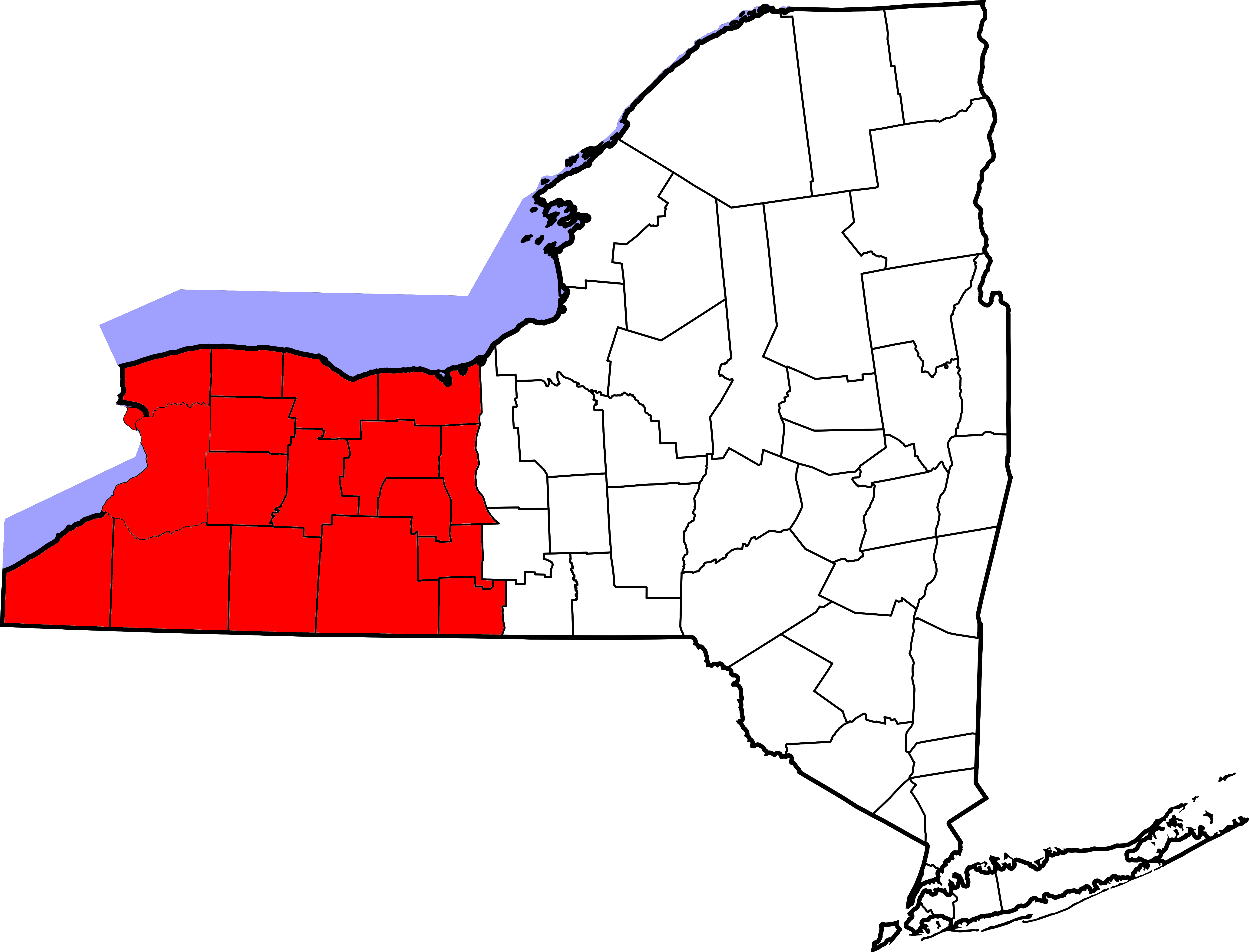 This is a locator map showing Western New York.